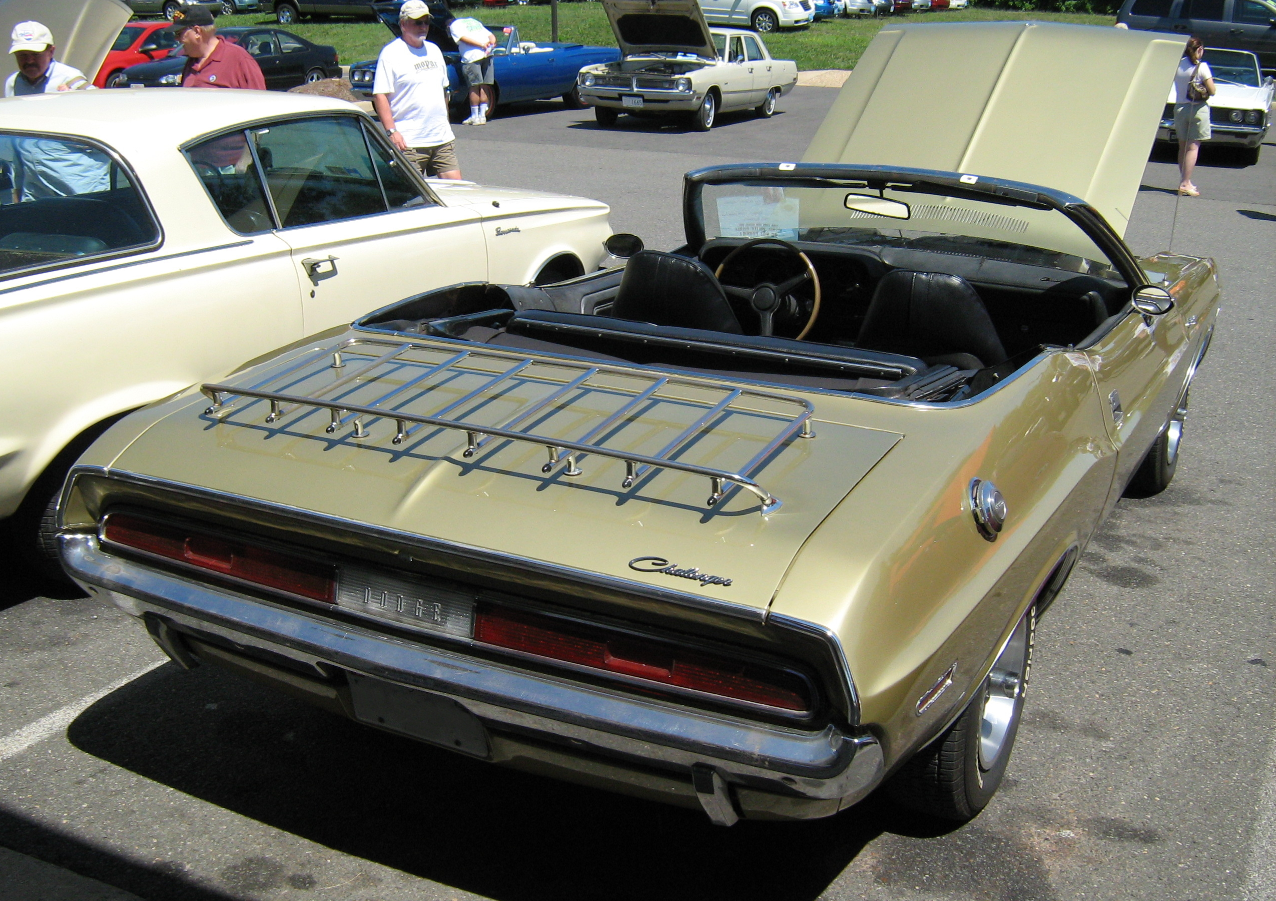 1970 Dodge Challenger convertible, rear view. All original vehicle with the standard and economical slant-six engine. This is NOT a "muscle car" version of the Challenger.